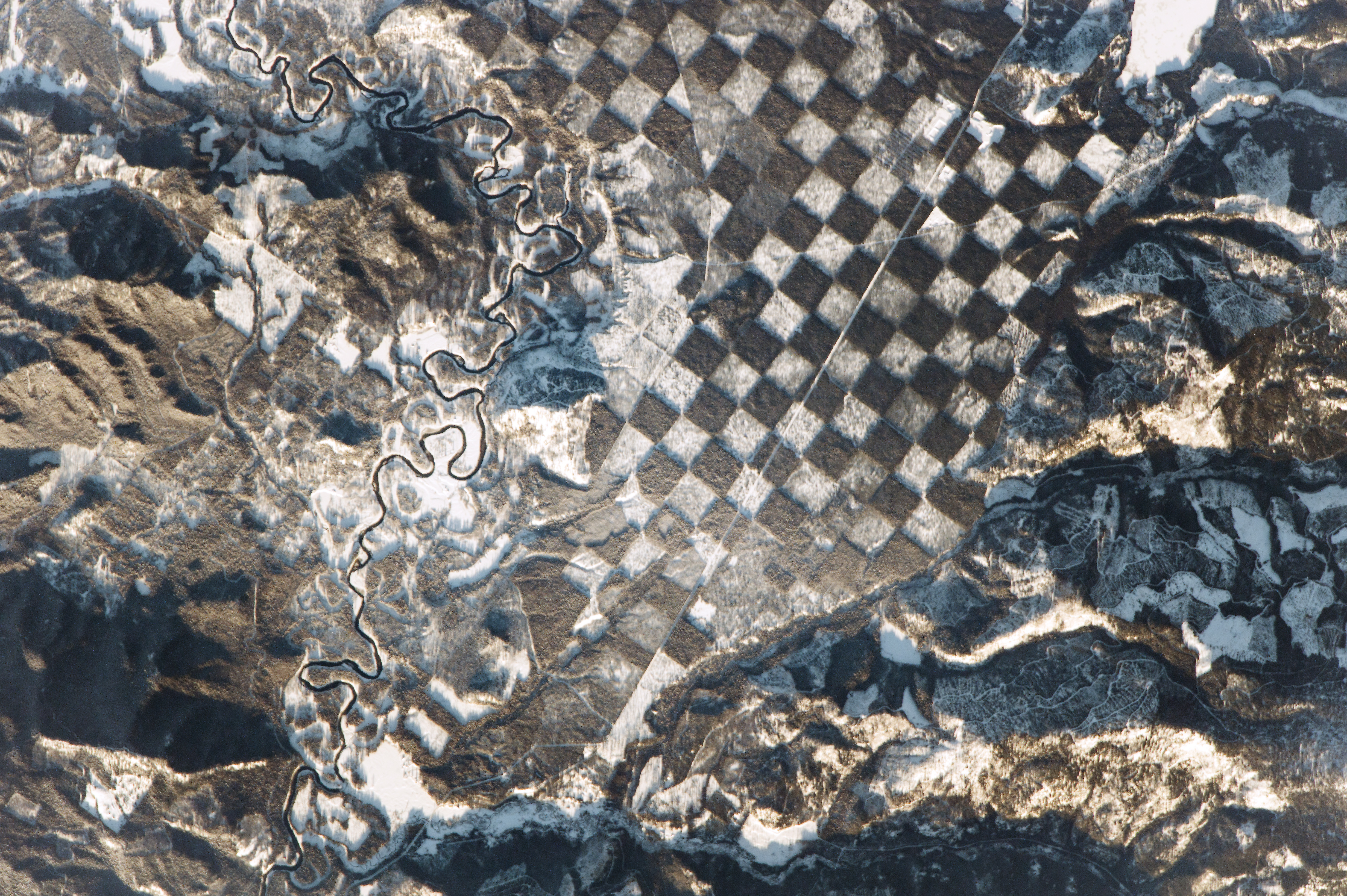 An astronaut aboard the International Space Station observed this distinctive checkerboard pattern alongside the Priest River in northern Idaho. The photograph was taken just before sunset, so some mountainsides glow while others are covered in long shadows because of the low Sun angle. The quarter-mile (400 m) squares in this landscape checkerboard appear to be the result of forest management. Similar patterns originated in the 1800s, when alternate parcels of land were granted by the U.S. government to railroads such as the Northern Pacific. Many parcels in the Pacific Northwest were later sold off and harvested for timber. The land shown here is now managed for wildlife and for timber harvesting. The white patches reflect areas with younger, smaller trees, where winter snow cover shows up brightly to the astronauts. Dark green-brown squares are parcels of denser, intact forest. The checkerboard is used as a method of maintaining the sustainability of forested tracts while still enabling a harvest of trees. The Priest River, winding through the scene from top to bottom, is bordered on both sides by a forest buffer that can serve as a natural filtration system to protect water quality. For nearly a century, the river was used to transport logs. Its function changed in 1968 when the river’s main stem was added to a list of “wild and scenic rivers” in order to preserve its “outstanding natural, cultural, and recreational values in a free-flowing condition for the enjoyment of present and future generations.” Whitetail Butte has historically been used by state and federal land managers as a lookout point for forest fires.